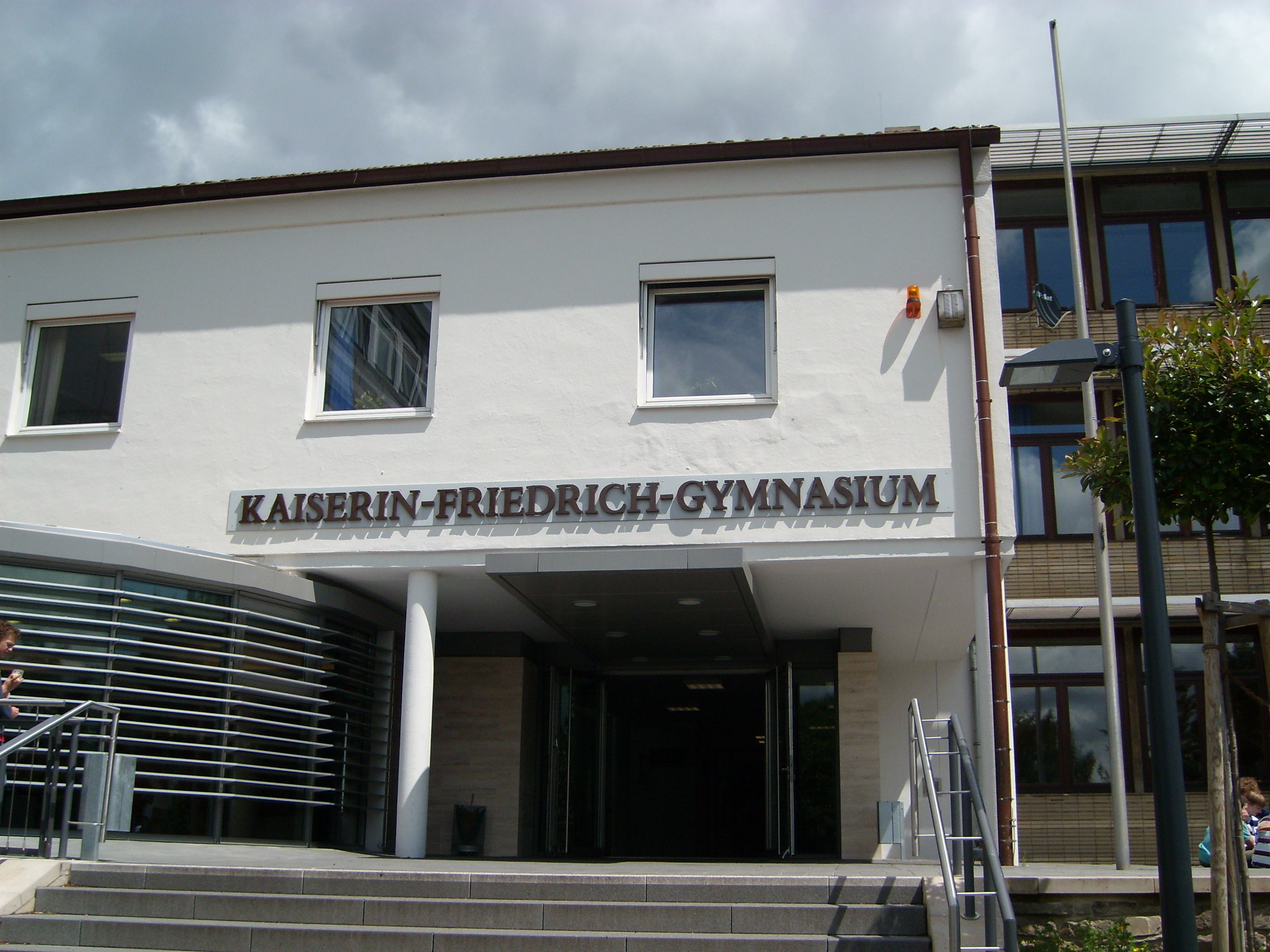 Principal entrance of the Kaiserin-Friedrich-Gymnasium, Bad Homburg vor der Höhe, Germany.